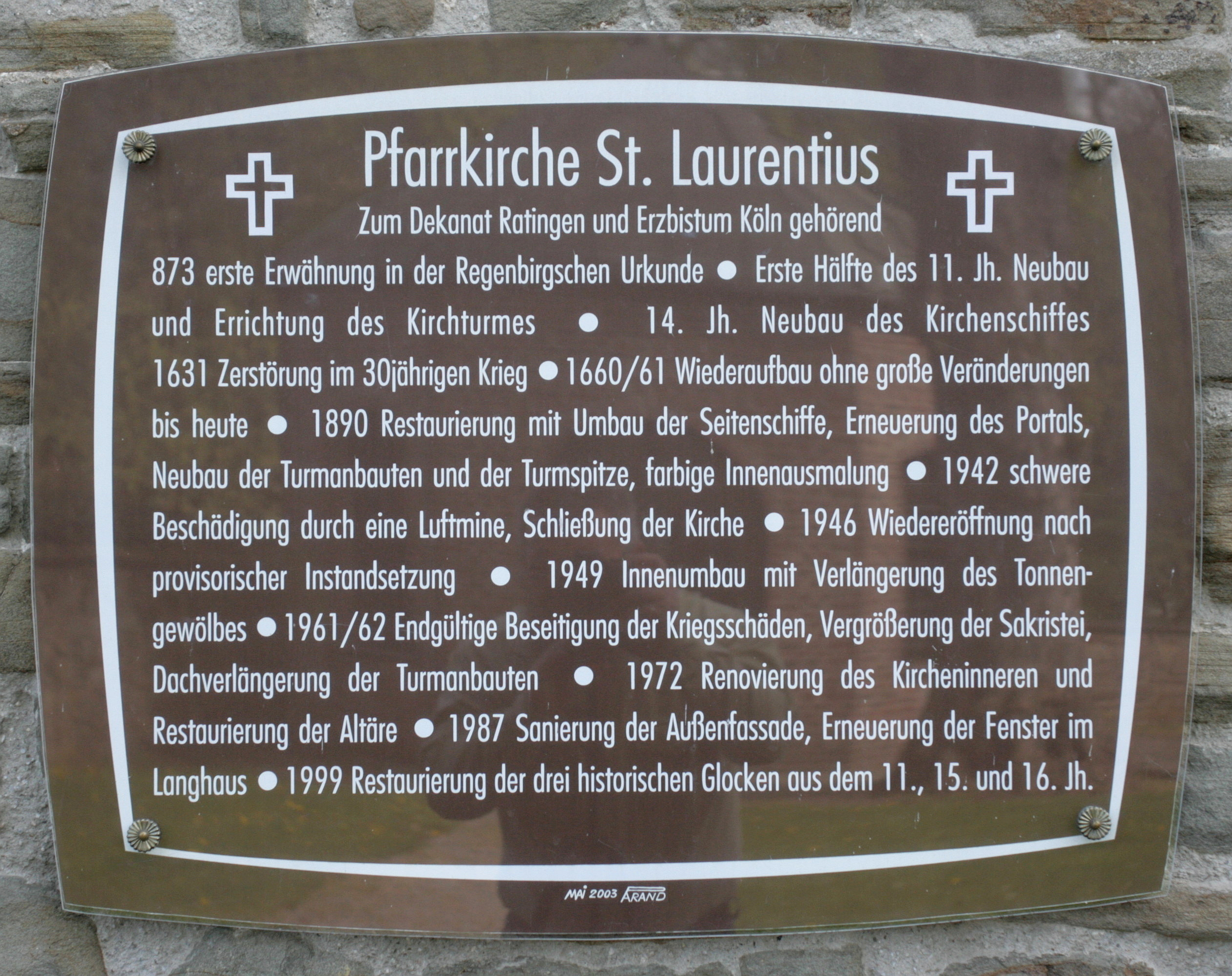 St. Laurentius in Mintard, Mülheim an der Ruhr